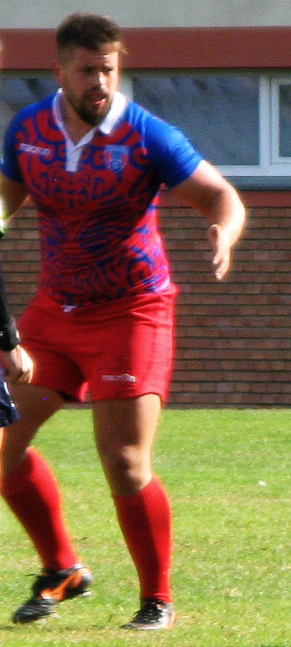 Romanian rugby union football player Tudor Butnariu, player of CSA Steaua București rugby club seen during a match against Timișoara Saracens in Round 3 of Romanian Rugby SuperLiga in September 2018